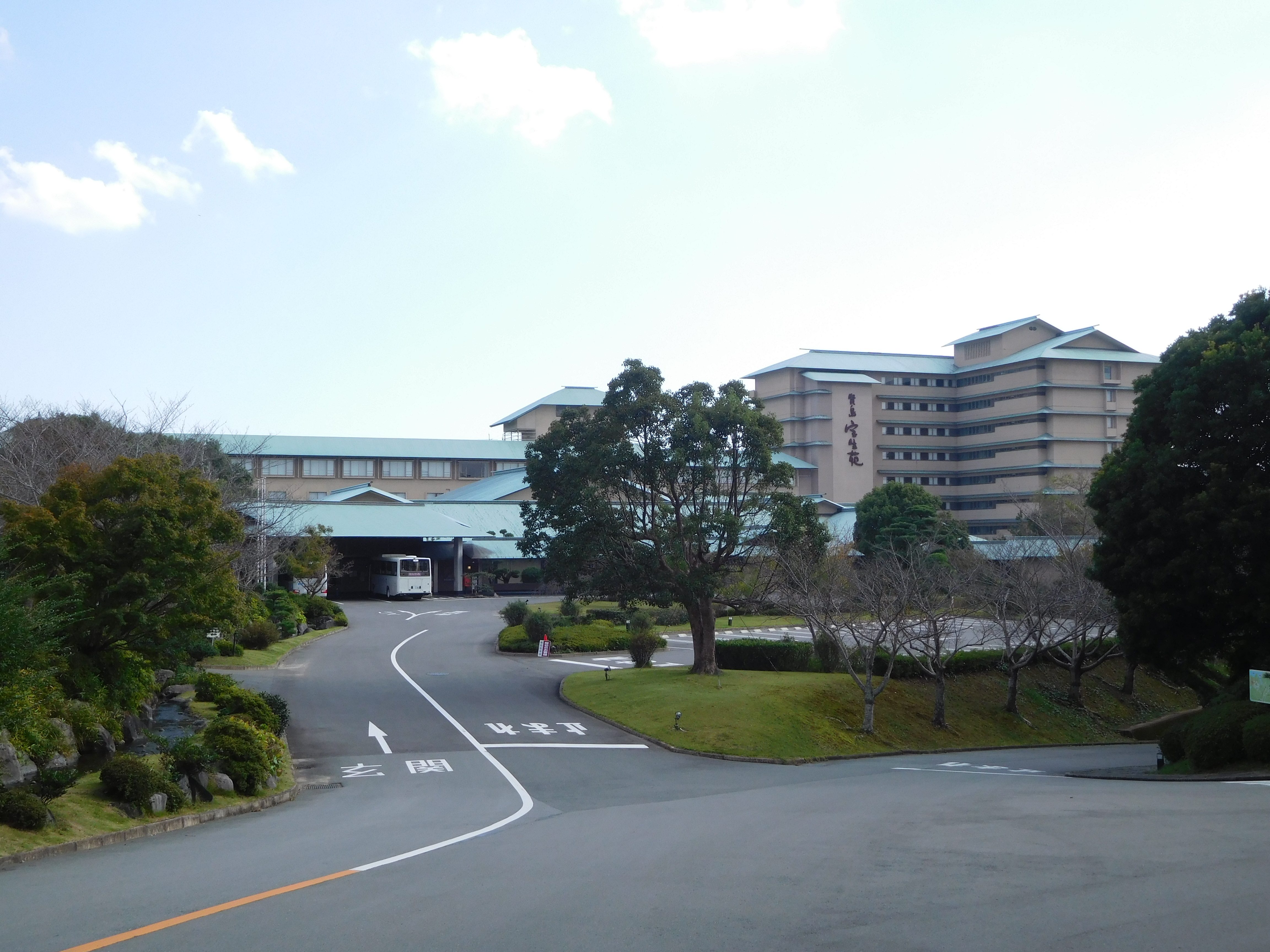 This is Kashikojima Hojoen, a Japanese-style hotel in Kashikojima, Agocho-Shimmei, Shima, Mie, Japan.